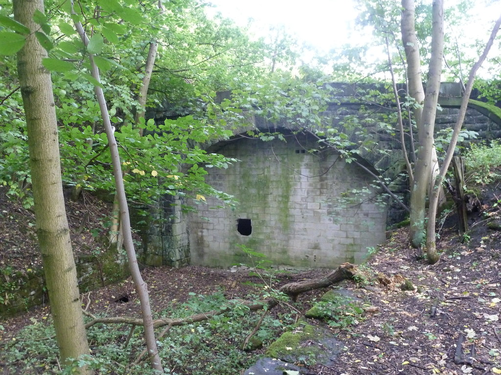 Haddon Tunnel portal